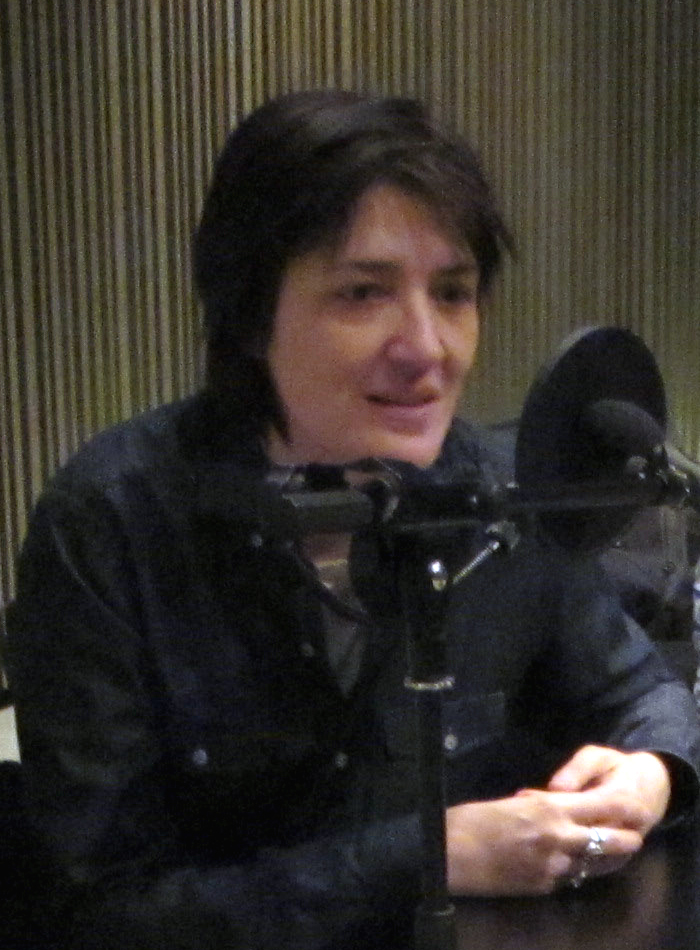 Beatriz Preciado in 2013